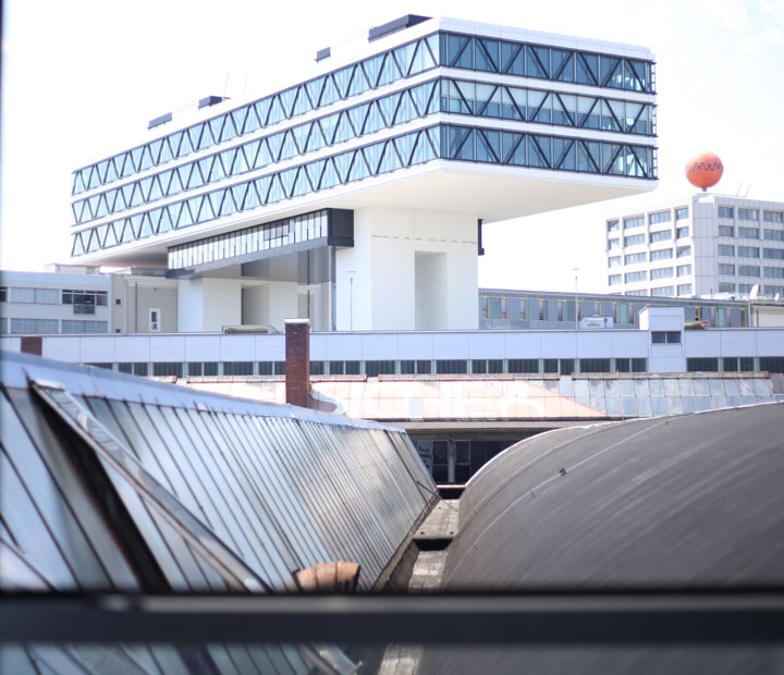 View from the auditorium